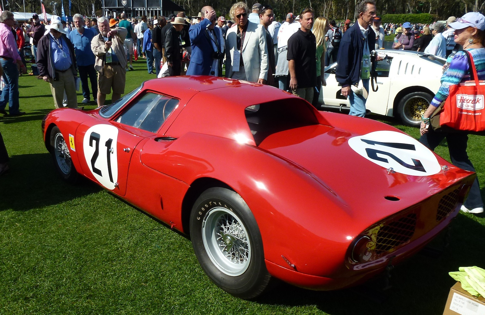 Ferrari 250 LM serial number 5893, the last Ferrari to win the 24 Hours of Le Mans, at Amelia Island in 2013